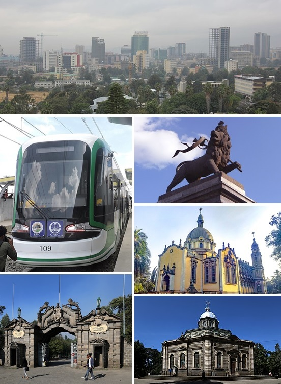 Montages of Addis Ababa, Ethiopia.